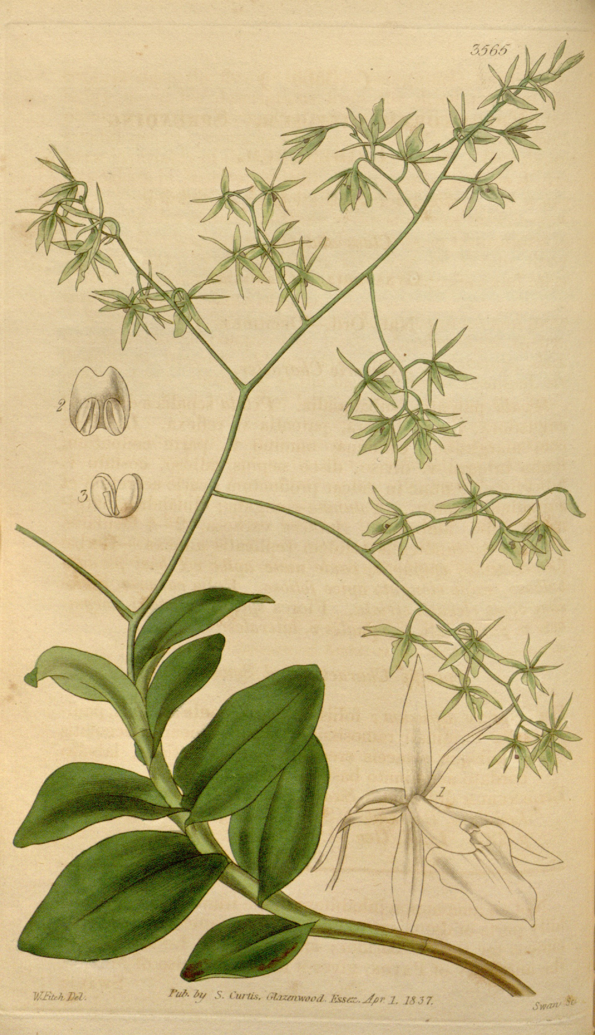 Illustration of Epidendrum diffusum